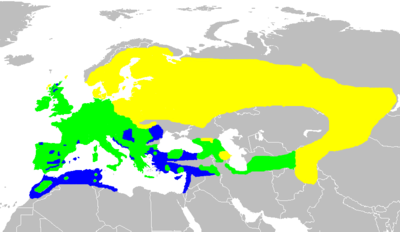 Range map of Turdus viscivorus, based on Clement, Peter; Hathway, Ren; Wilczur, Jan (2000) Thrushes (Helm Identification Guides), London: Christopher Helm Publishers, p. 142 ISBN: 0-7136-3940-7. Snow, David; Perrins, Christopher M (editors) (1998) The Birds of the Western Palearctic concise edition (2 volumes), Oxford: Oxford University Press, p. 1,230 ISBN: 978-0-19-854099-1. Base map is File:BlankMap-World-large.png